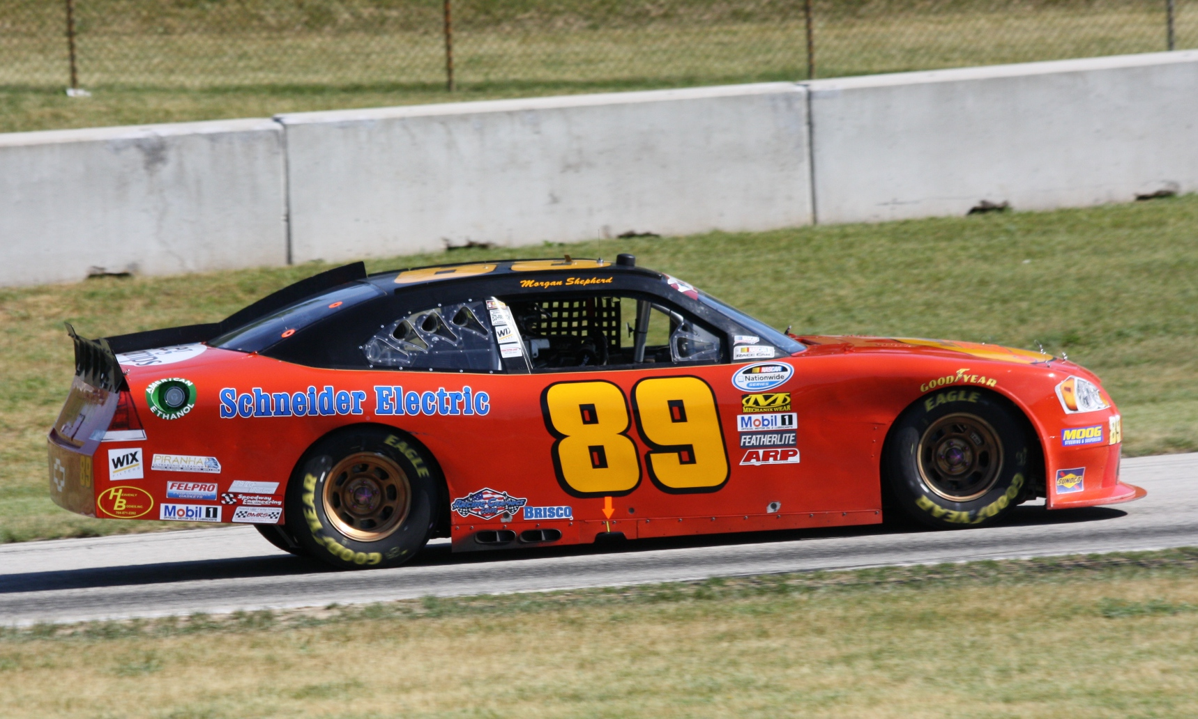 Morgan Shepherd NASCAR Nationwide Series car traveling uphilll and turning left at Turn 13 at Road America at the 2012 Sargento 200.